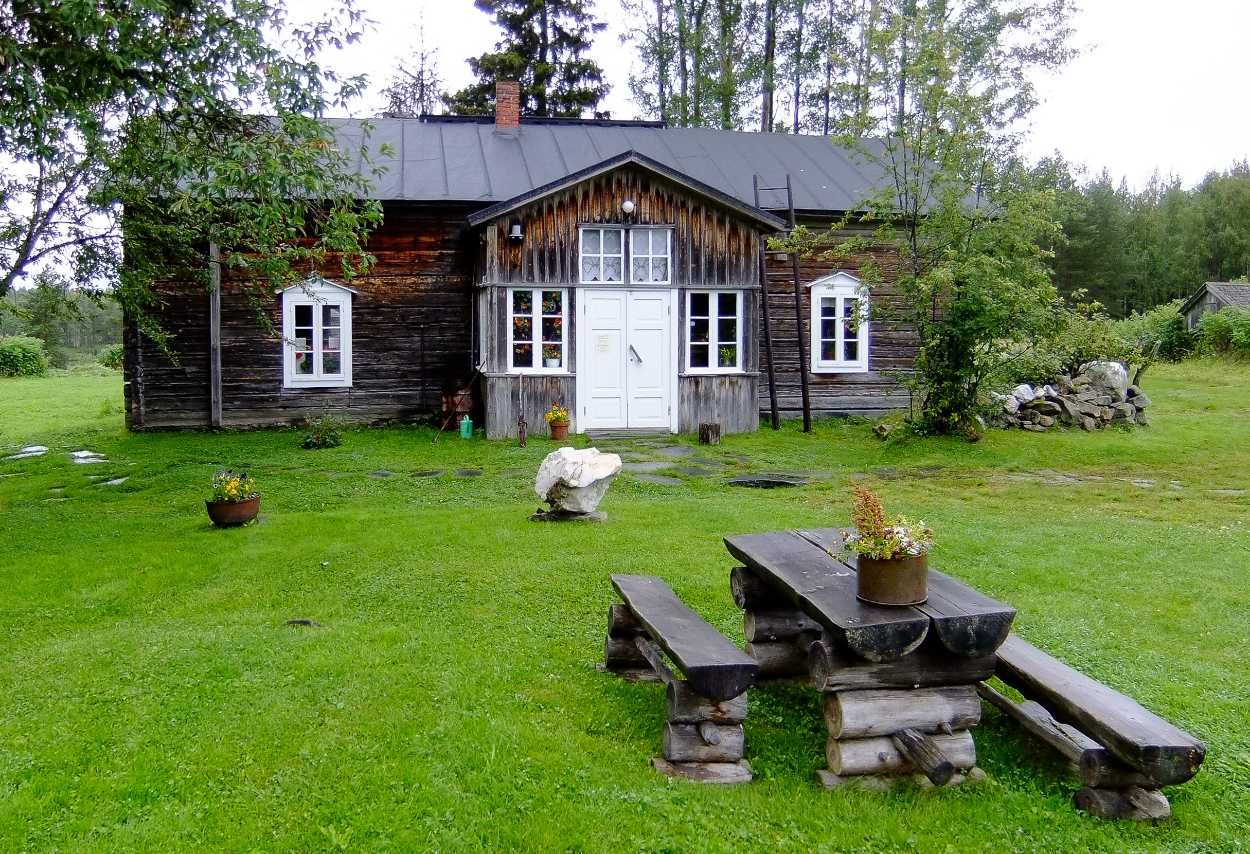 The Särestöniemi Museum in Kittilä, Finland, Family Farm